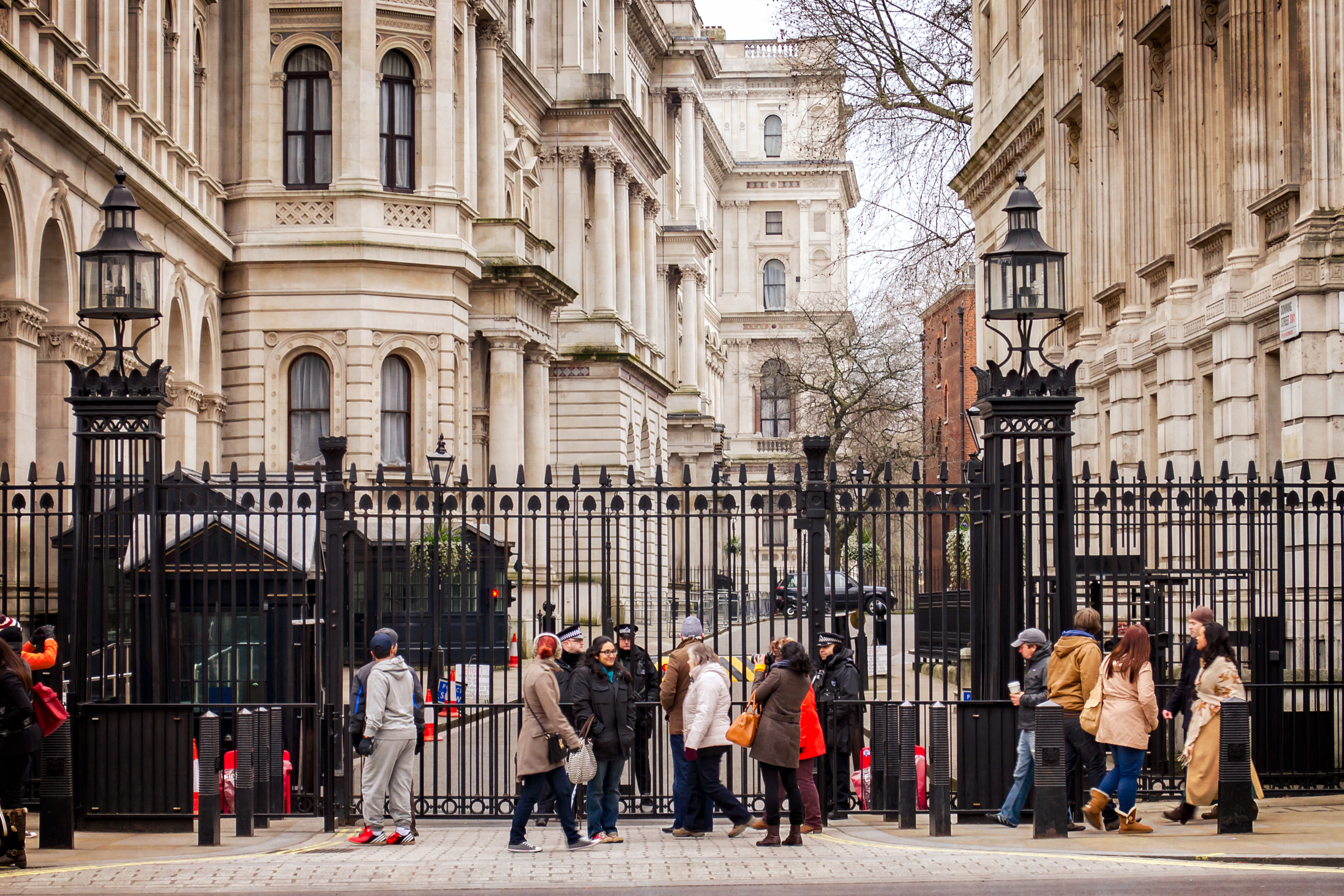 Gates at the main entrance of Downing Street, Westminster, London.